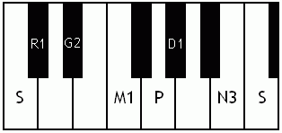 Musical notes of the Dhenuka ragam in Carnatic music shown in a keyboard layout. See swaras in Carnatic music for details on the notation used. In this image C is used as Shadjam for simplicity sake only. In Carnatic music any note can be the tonic note (sruti), which is taken as Shadjam note. This image is for use in Wikipedia ragam articles and articles related to Carnatic music.